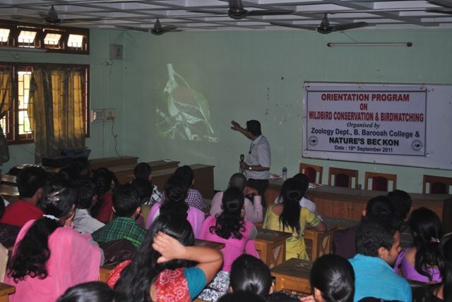 Orientation program by Nature's Beckon on wildbird conservation and watching